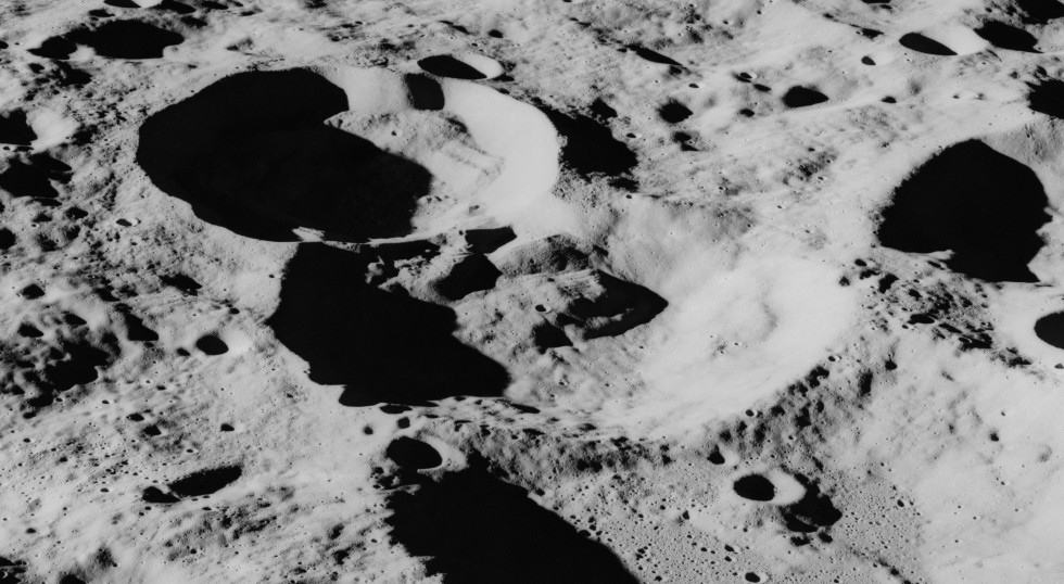 Oblique view of Van Gent, on the far side of the moon, facing north. Van Gent X is in upper left. Sun angle 9 deg, camera altitude 115 km.